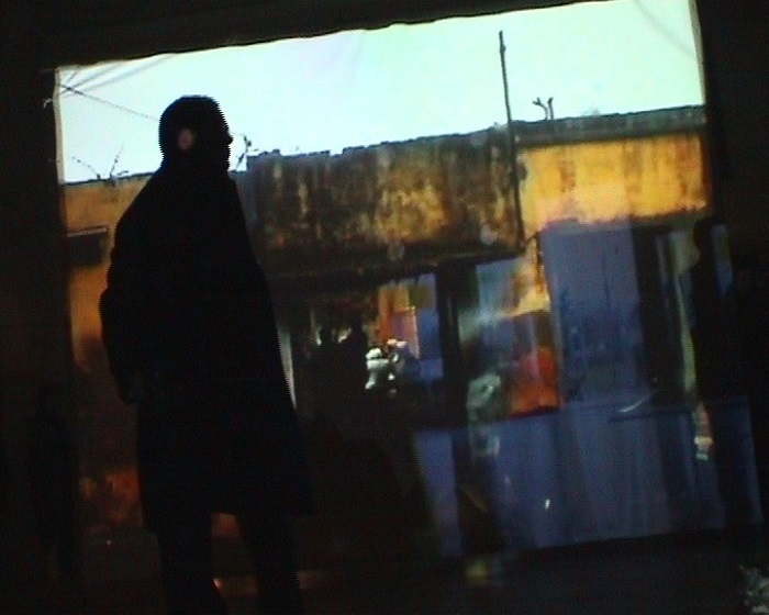 exposition view at vladivostok